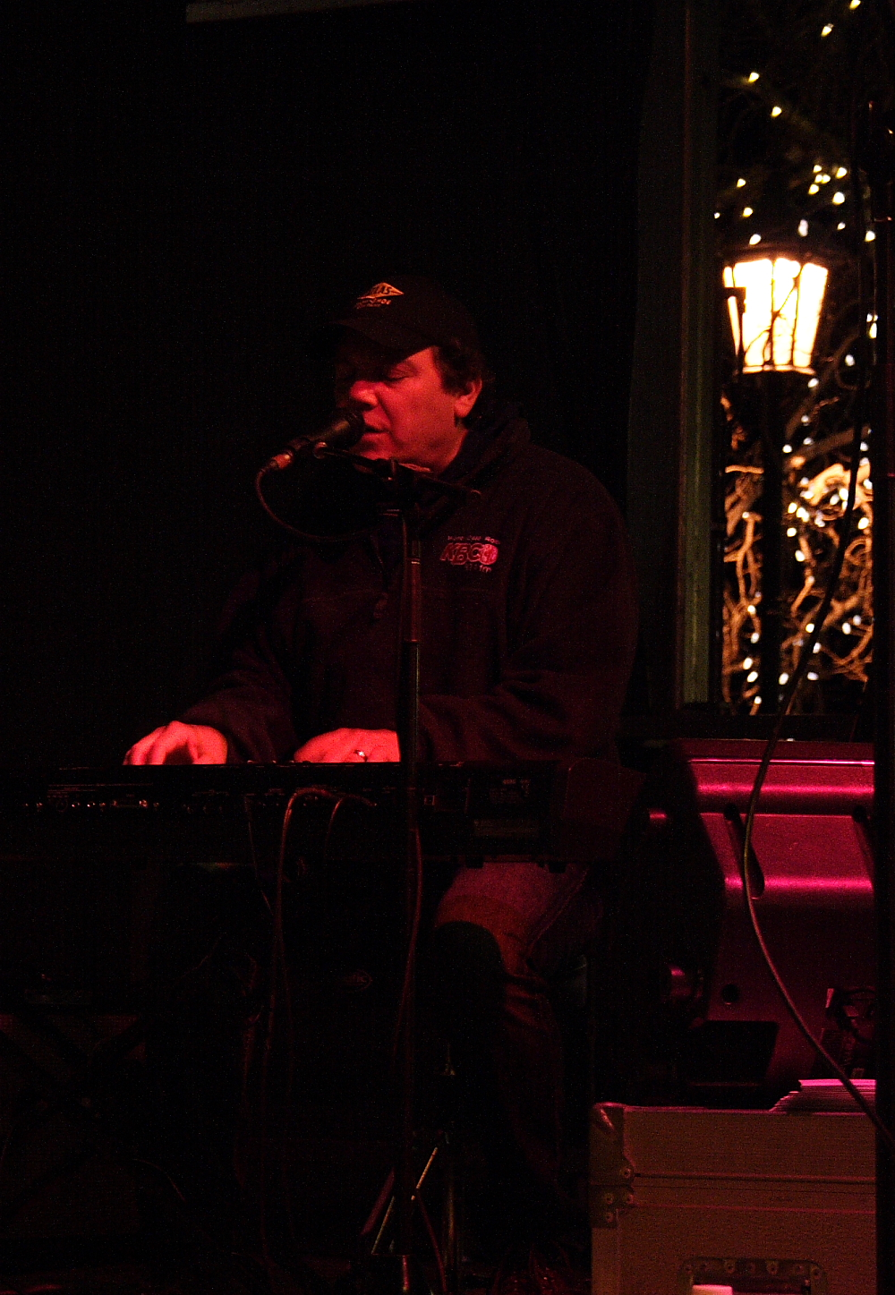 JoJo Herman and the Mardi Gras Band performing a free concert in Vail, CO Photo Mike Hardaker Mountain Weekly News